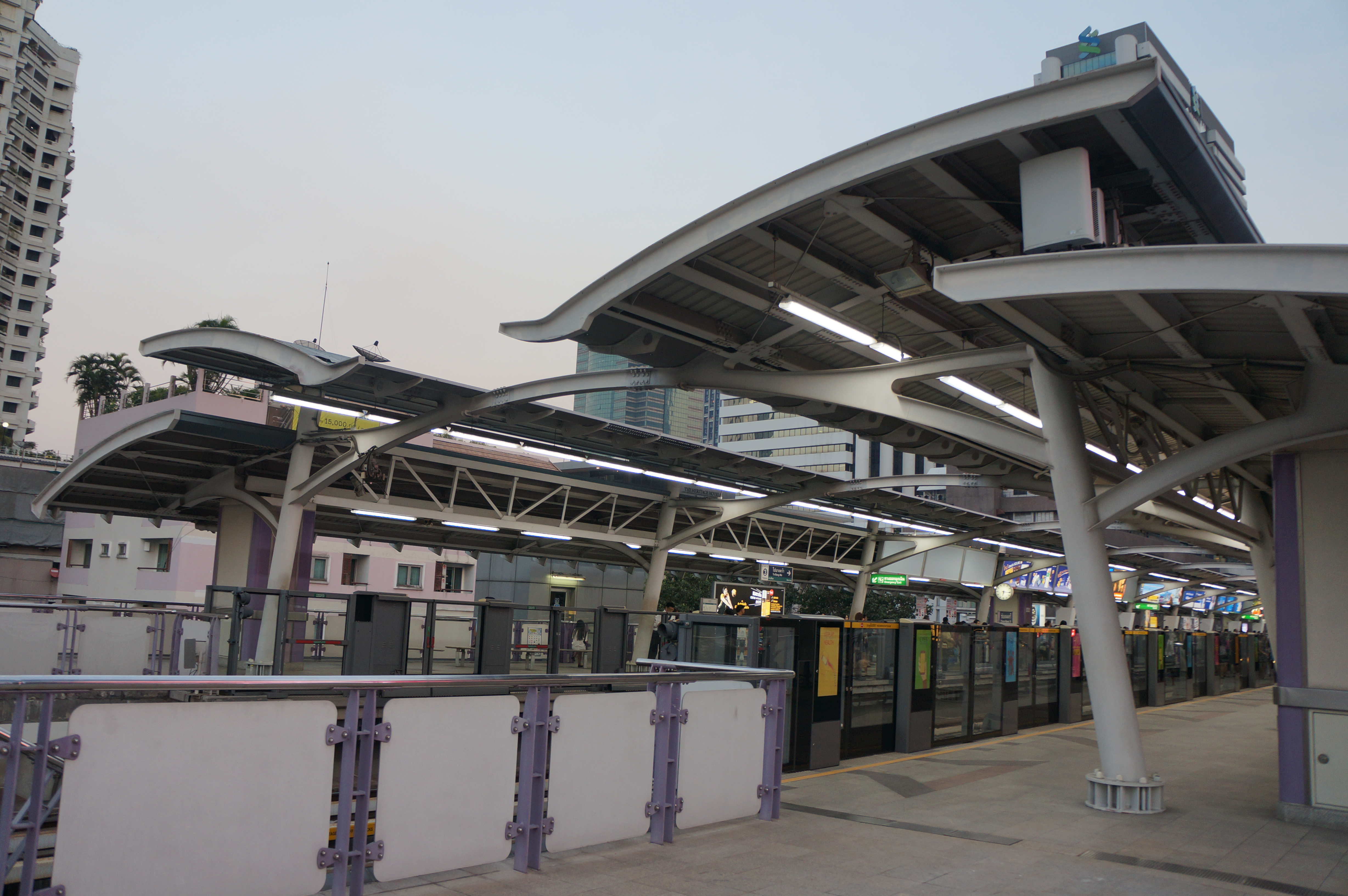 201701 Platform of Chong Nonsi Station